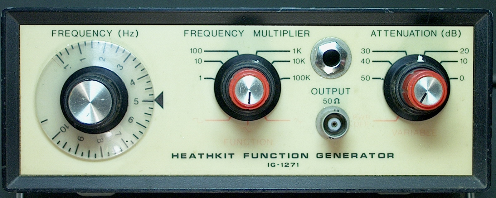 Heathkit IG-2171 signal generator.